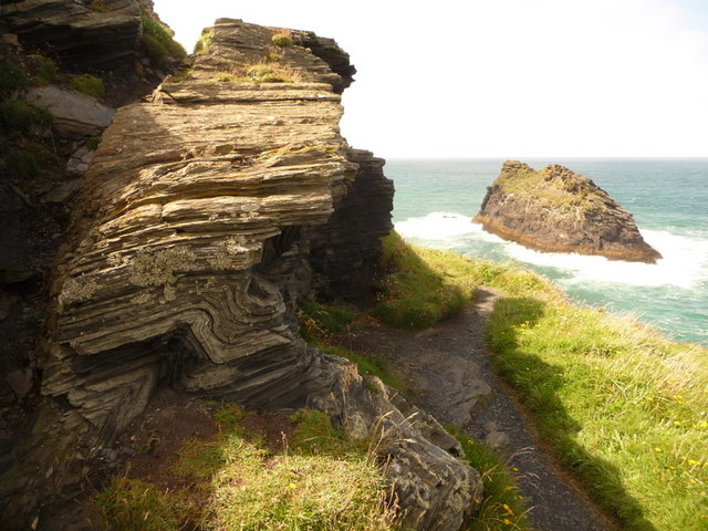 Boscastle: rock strata on Penally Point A rare fold in the rock strata, a change from the mainly large, flat slate layers on the headland here. Meachard is the name of the offshore rock.